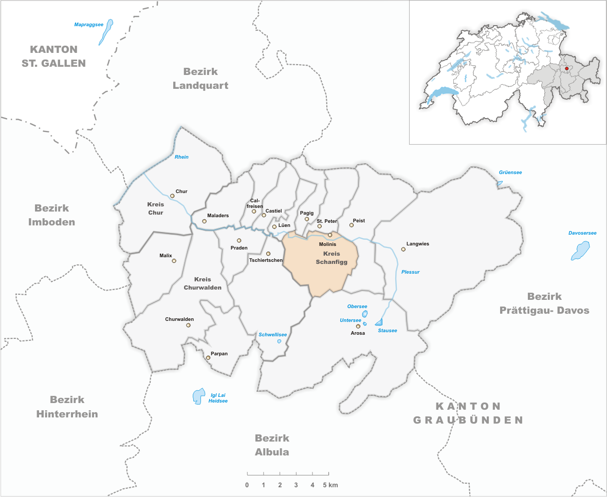 Municipality Molinis